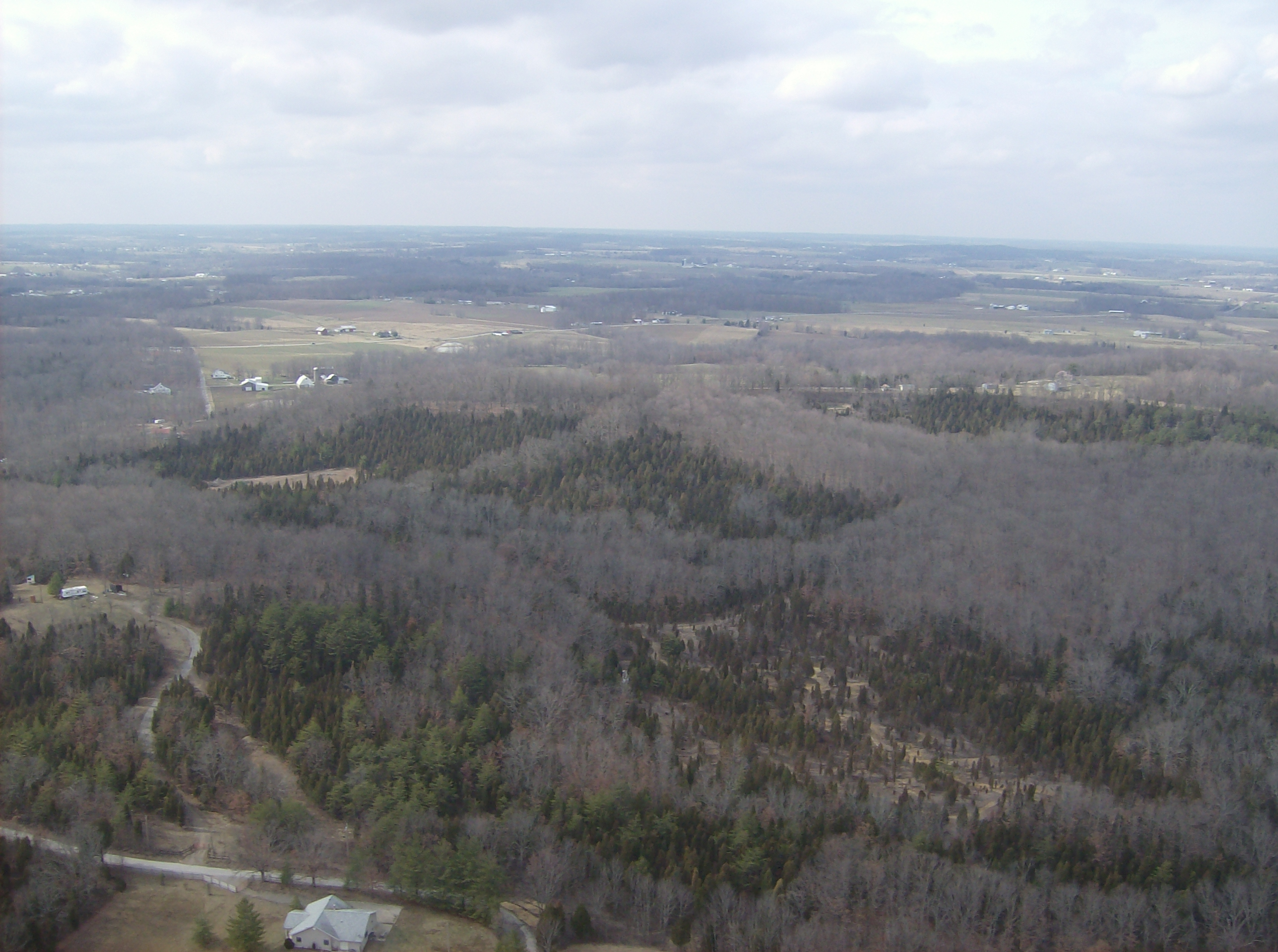 Countryside in southwestern Oliver Township, Adams County, Ohio, United States. Road in bottom right corner is Tom Brown Road, halfway between Unity Road and State Route 247. Picture taken from a Diamond Eclipse light airplane (just before landing at Alexander Salamon Airport) at an altitude of 1,400 feet MSL and a bearing of approximately 308º.